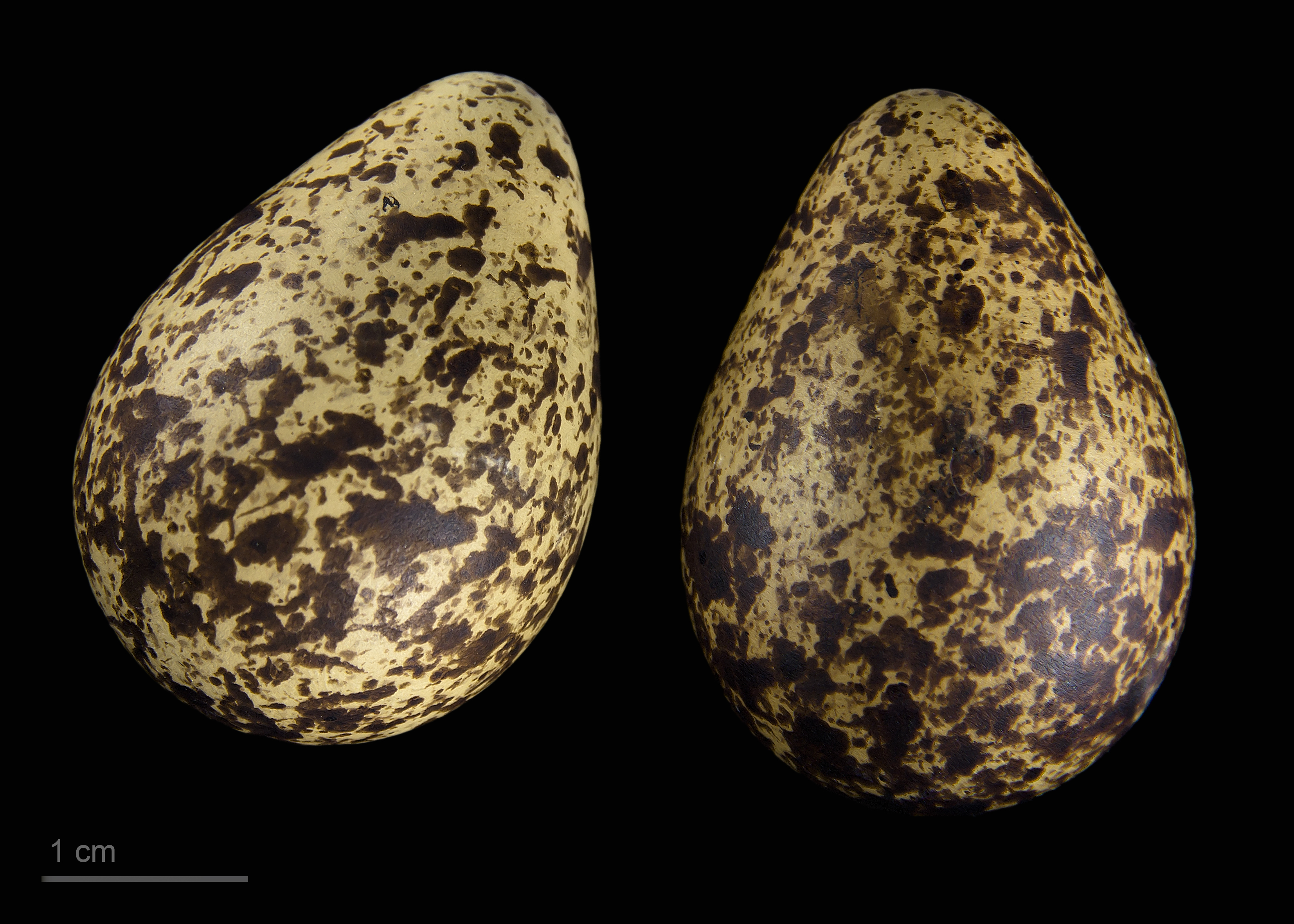 Eggs of red phalarope Two specimens of the same spawn ; collection of Jacques Perrin de Brichambaut.